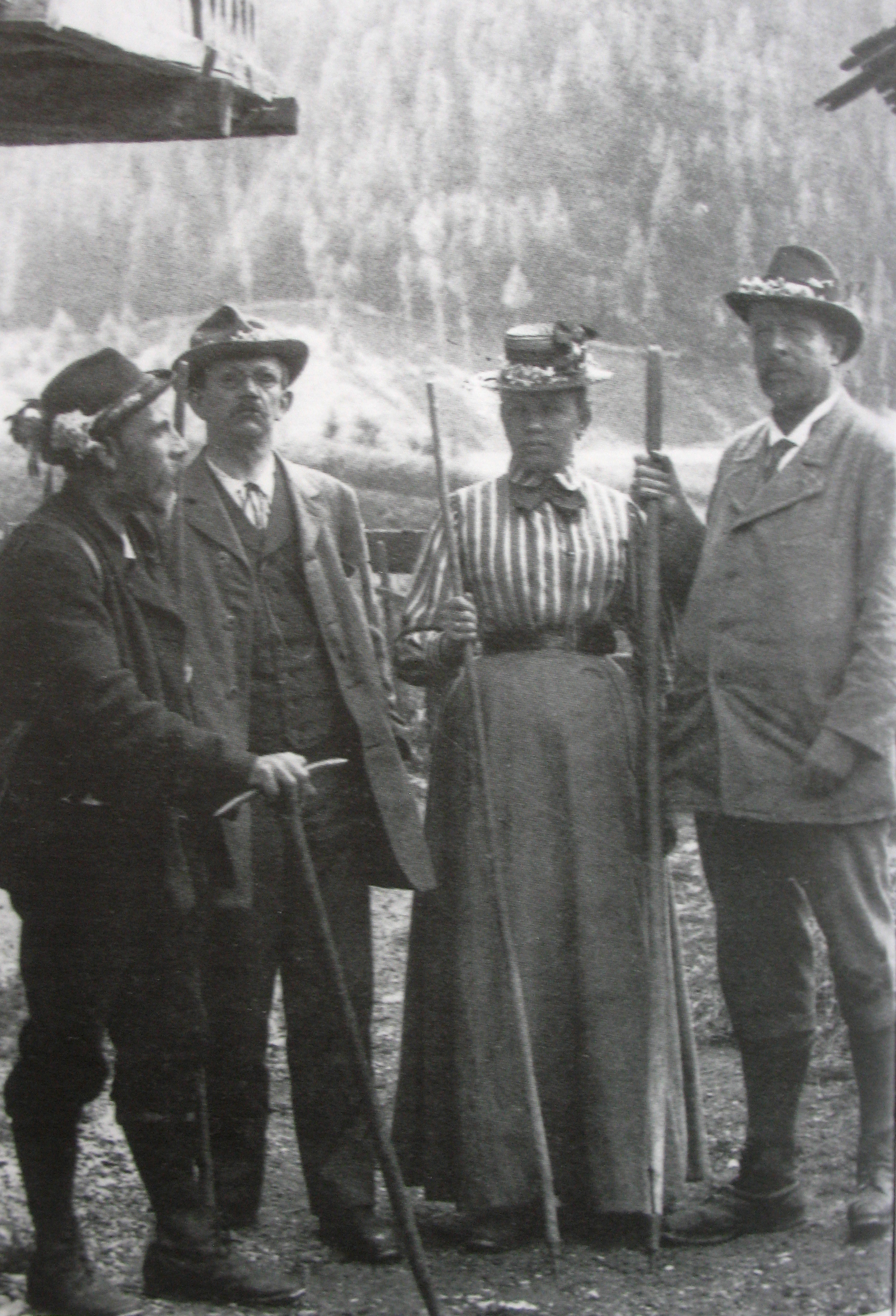 A guide from Fassa Vally, Ludwig Norman-Neruda, his wife May Norman-Neruda and Theodor Christomannos (from left to right)